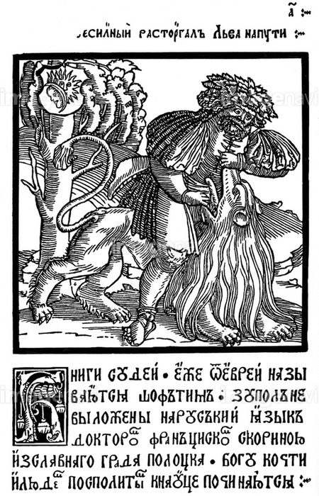 Image from "Book of Judges" of Francysk Skarynaб 1519